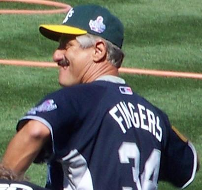 Rollie Fingers at the 2008 Allstars and Legends game at Yankee Stadium